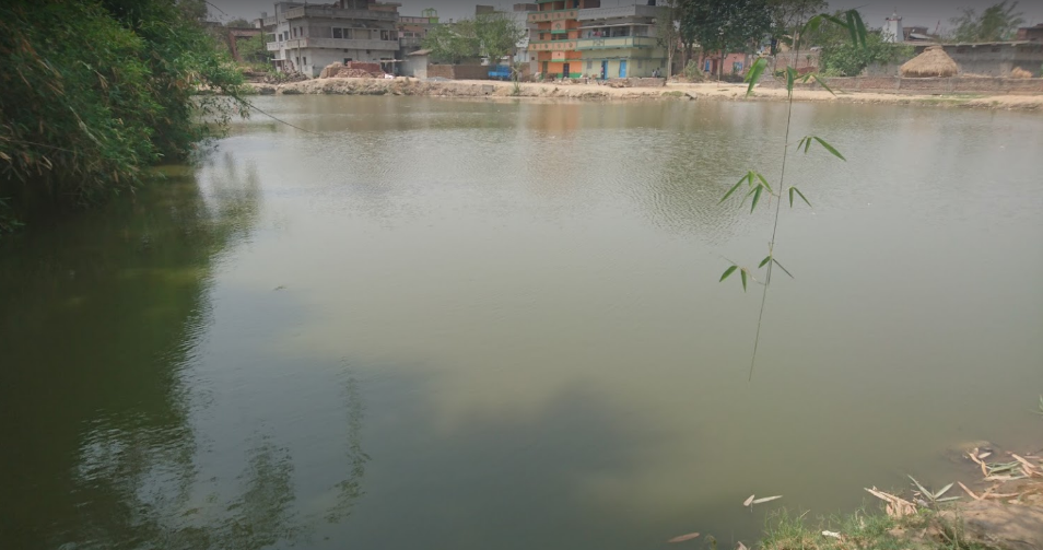 it is said that snake muchalinda live in this lake who protect lord Buddha by heavy rain during medication.